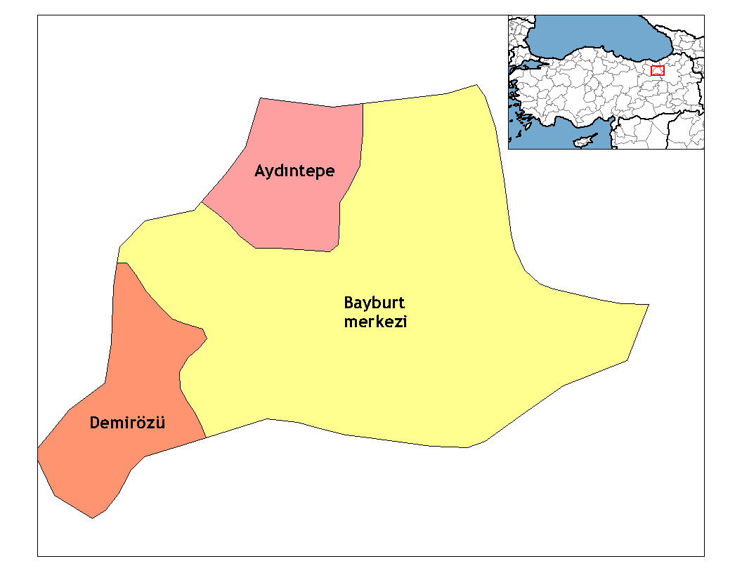 Map of the districts of Bayburt province in Turkey. Created by Rarelibra 18:55, 1 December 2006 (UTC) for public domain use, using MapInfo Professional v8.5 and various mapping resources. Edited by One Homo Sapiens Corrected text where İ,Ş,ı,ğ,or ş occurs in name. Source: [statoids-com]. Increased font size.